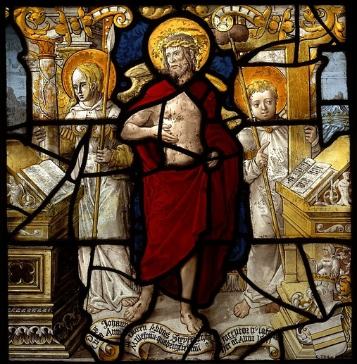 Christ with angels, stained glass panel from Steinfeld Abbey